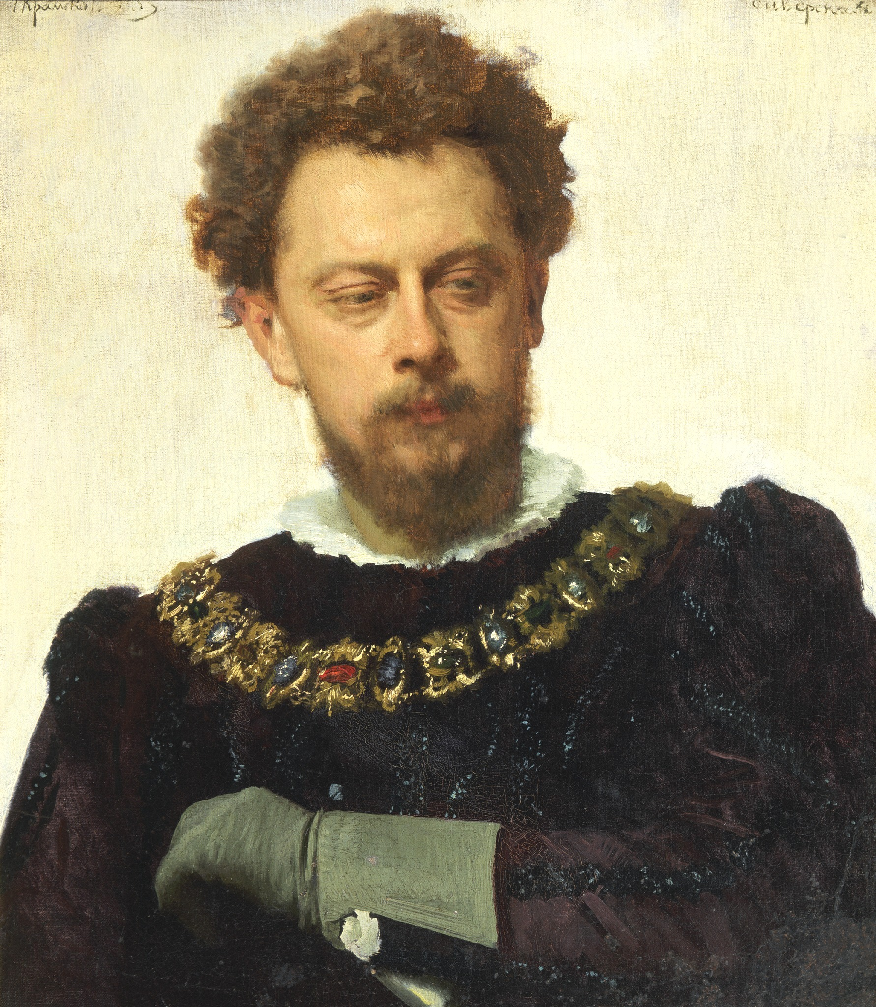 "Actor Alexandr Pavlovich Lensky in the role of Petruchio in "The Taming of the Shrew""